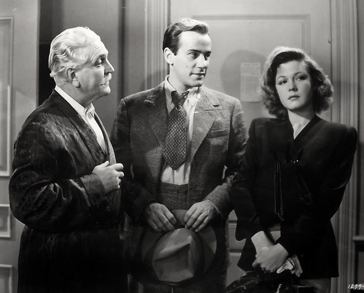 L. to R. : Frank Morgan, Richard Carlson, and Jean Rogers in A Stranger in Town (1943) - cropped screenshot